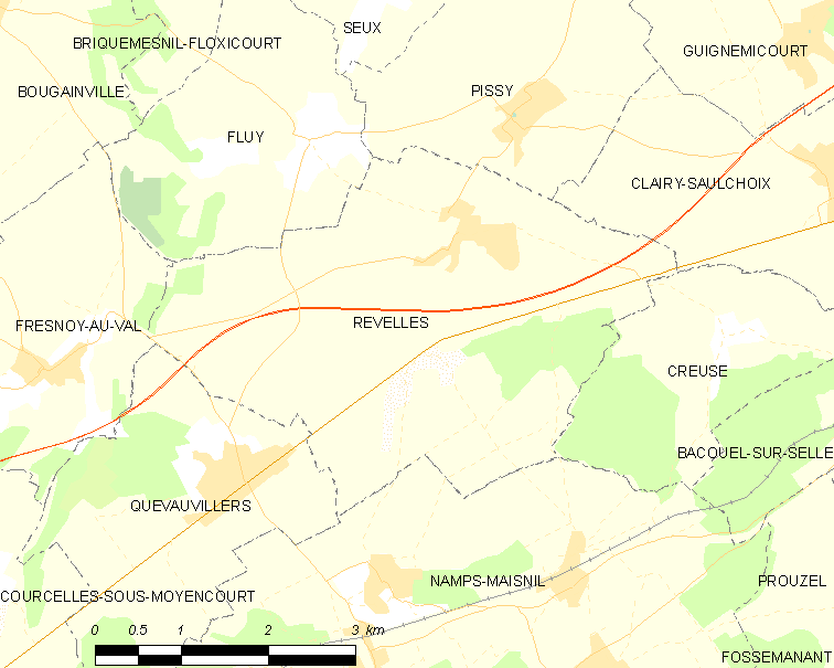 Map of French municipality Revelles